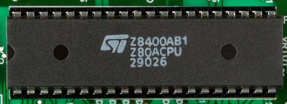 SGS-Thomson Zilog Z80A Second source microprocessor Z8400AB1 2906